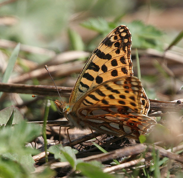 Queen of Spain Fritillary Issoria lathonia . Shot taken at Kullu Distt., Himachal, India during Sar Pass Trek (around 11500 ft.)on way to Tlla Lotani (12500 ft.).